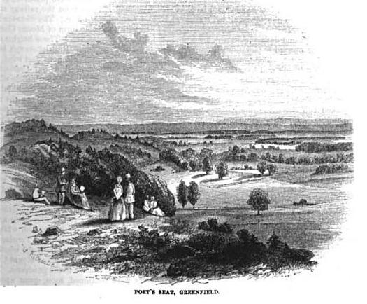 Anonymous illustration to an article entitled "The Valley of the Connecticut", by T. Addison Richards, in the August 1856 edition of Harper's New Month;y Magazine.